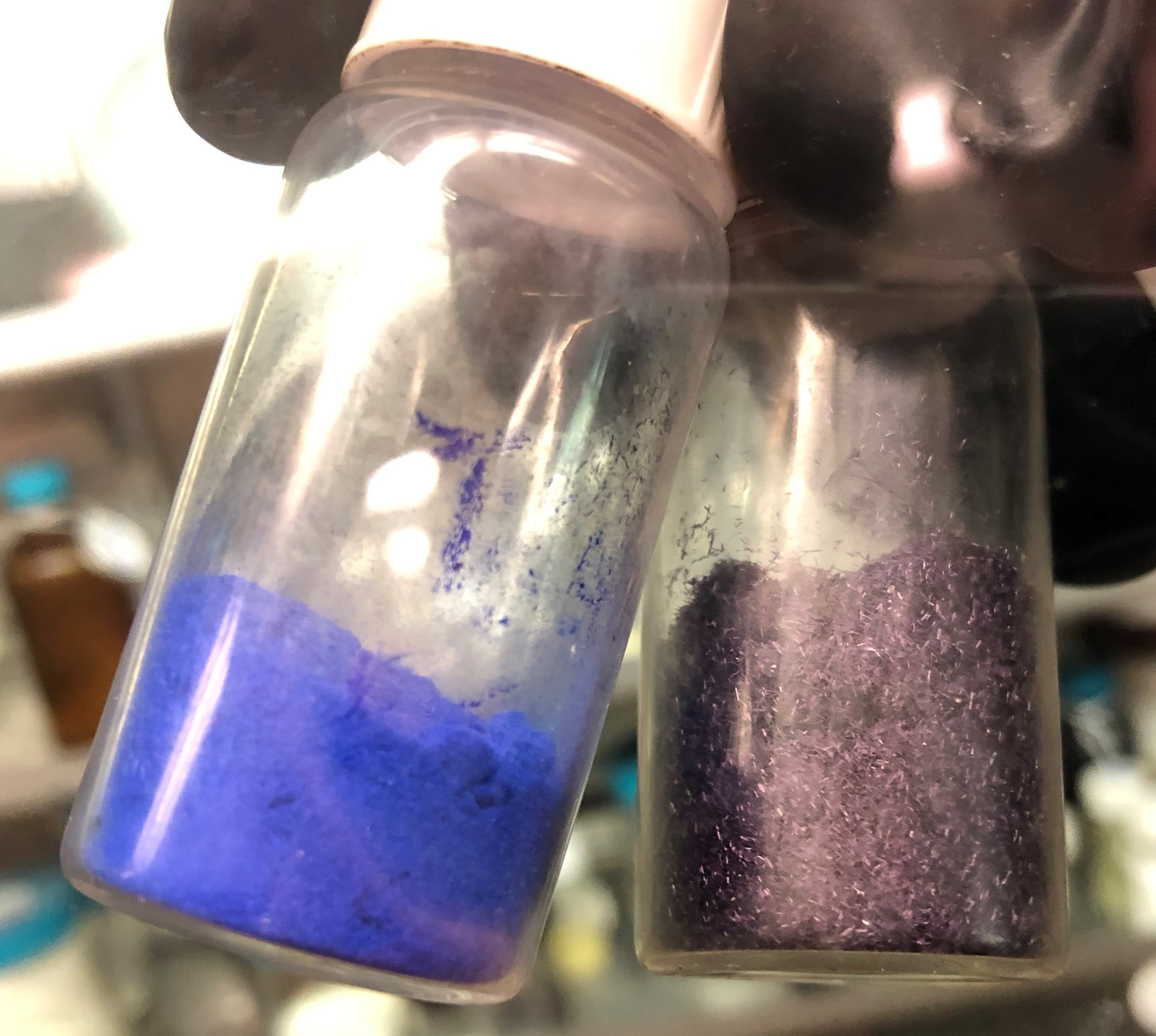 Vials containing blue titanium tris{bis(trimethylsilyl)amide} (left) and violet vanadium tris{bis(trimethylsilyl)amide} (right). The compounds are stored in a glovebox containing an inert atmosphere of dry argon due to their reactivity with oxygen and water.